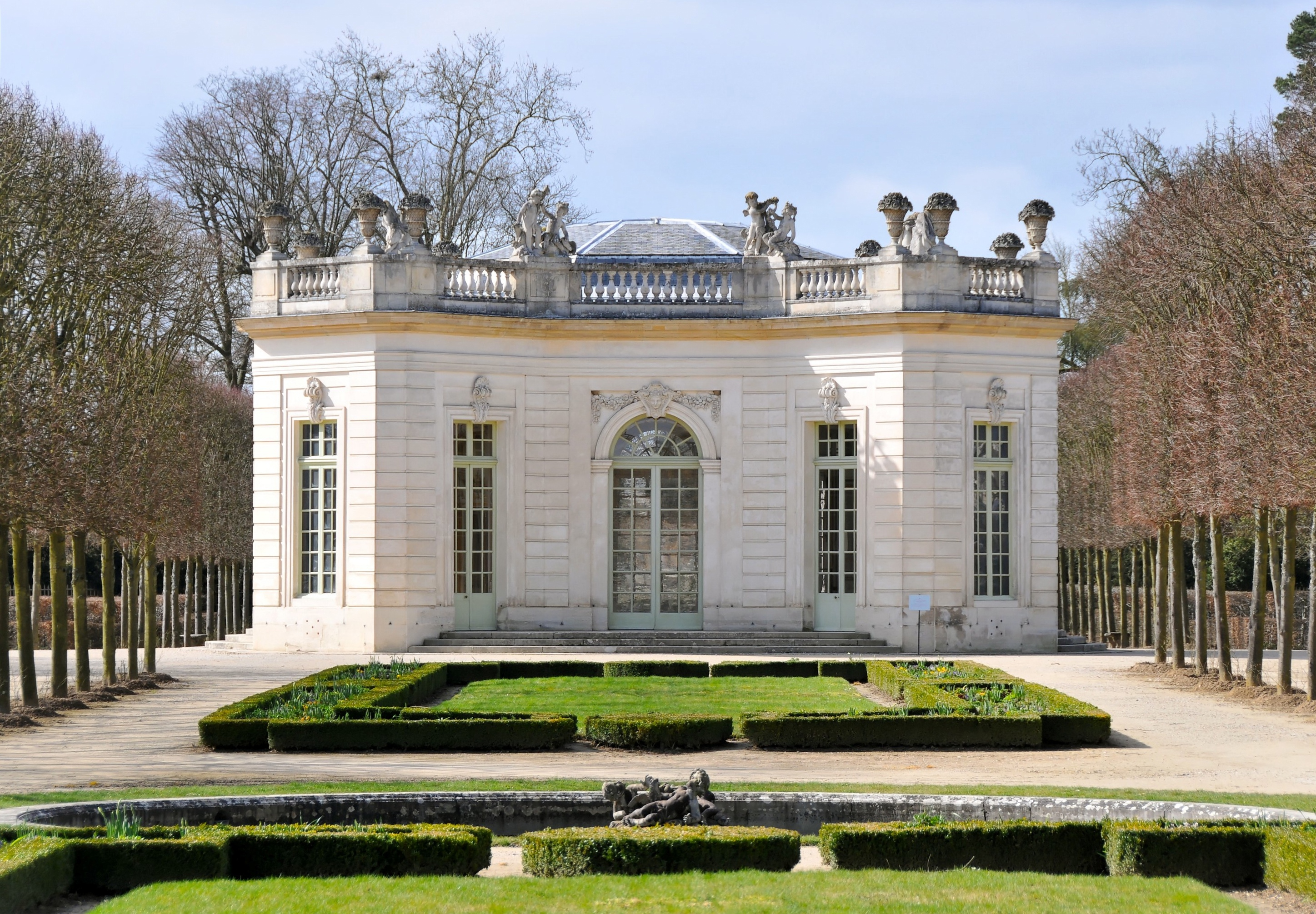 Pavillon français, Domain of Versailles, France.